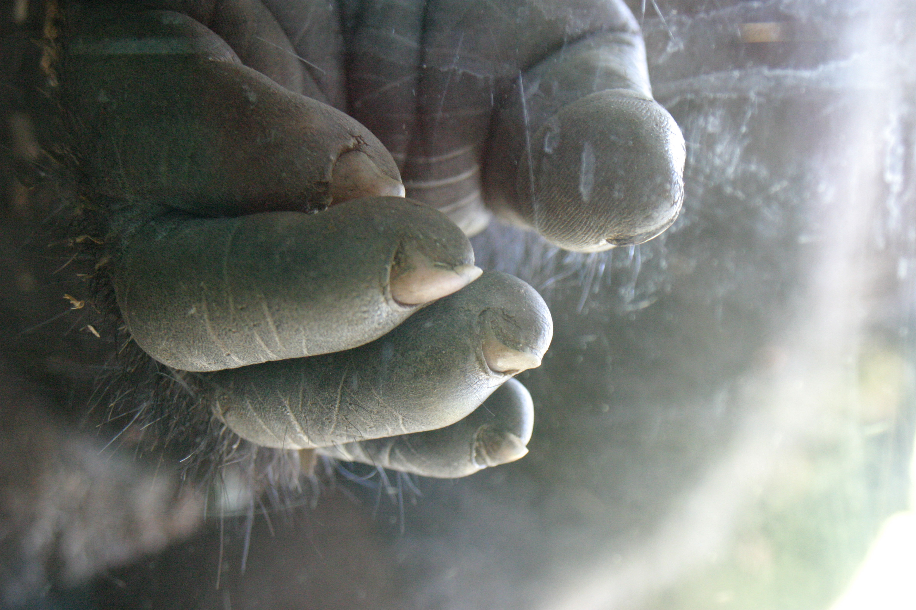 A close up photo of a gorilla's hand with finger prints visible.